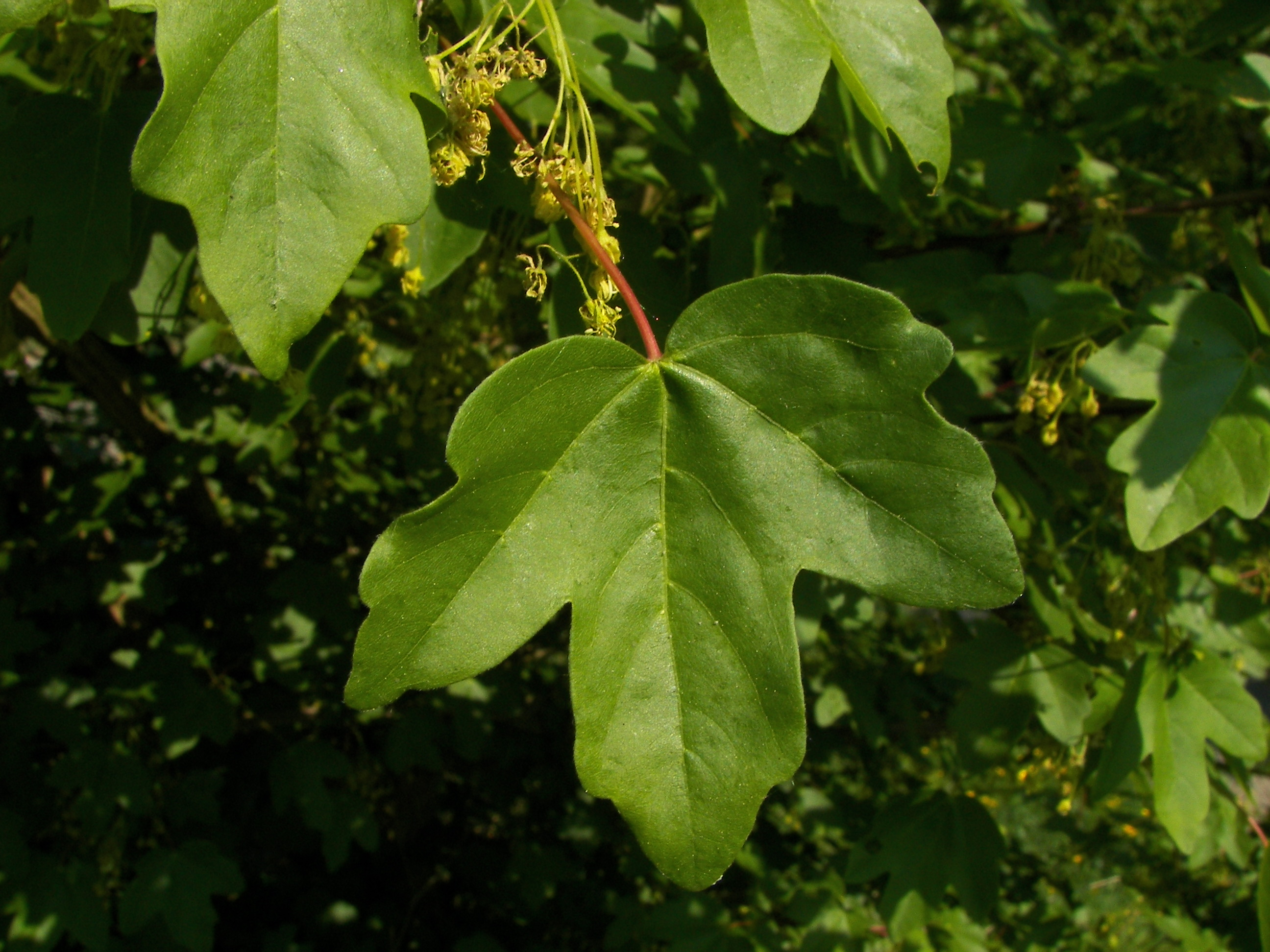 Field Maple (Acer campestre), Leaf, Location: Marburg, Hesse, Germany